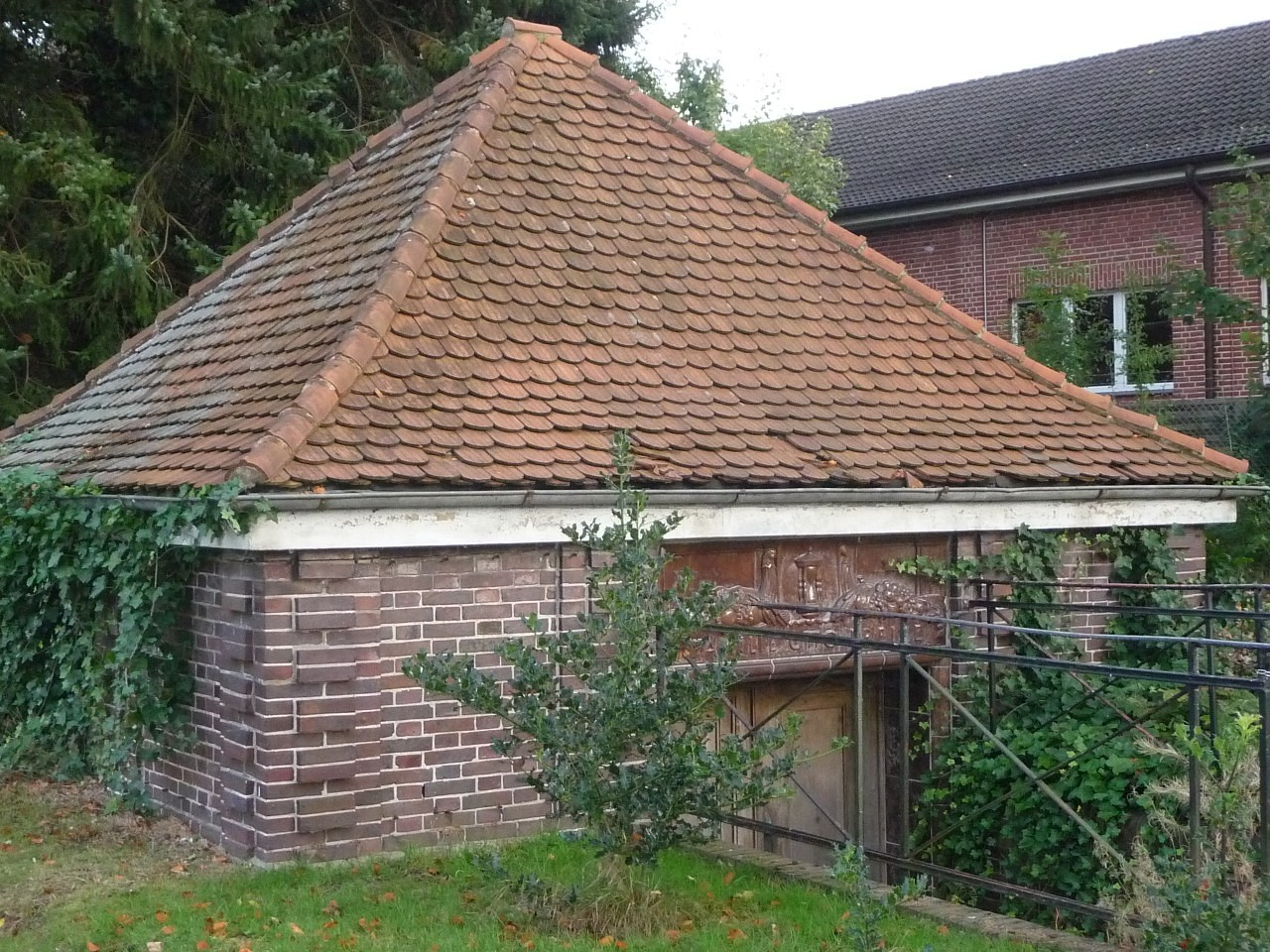 Mausoleum family Otto Freise, cemetery Grohn in Bremen-Vegesack